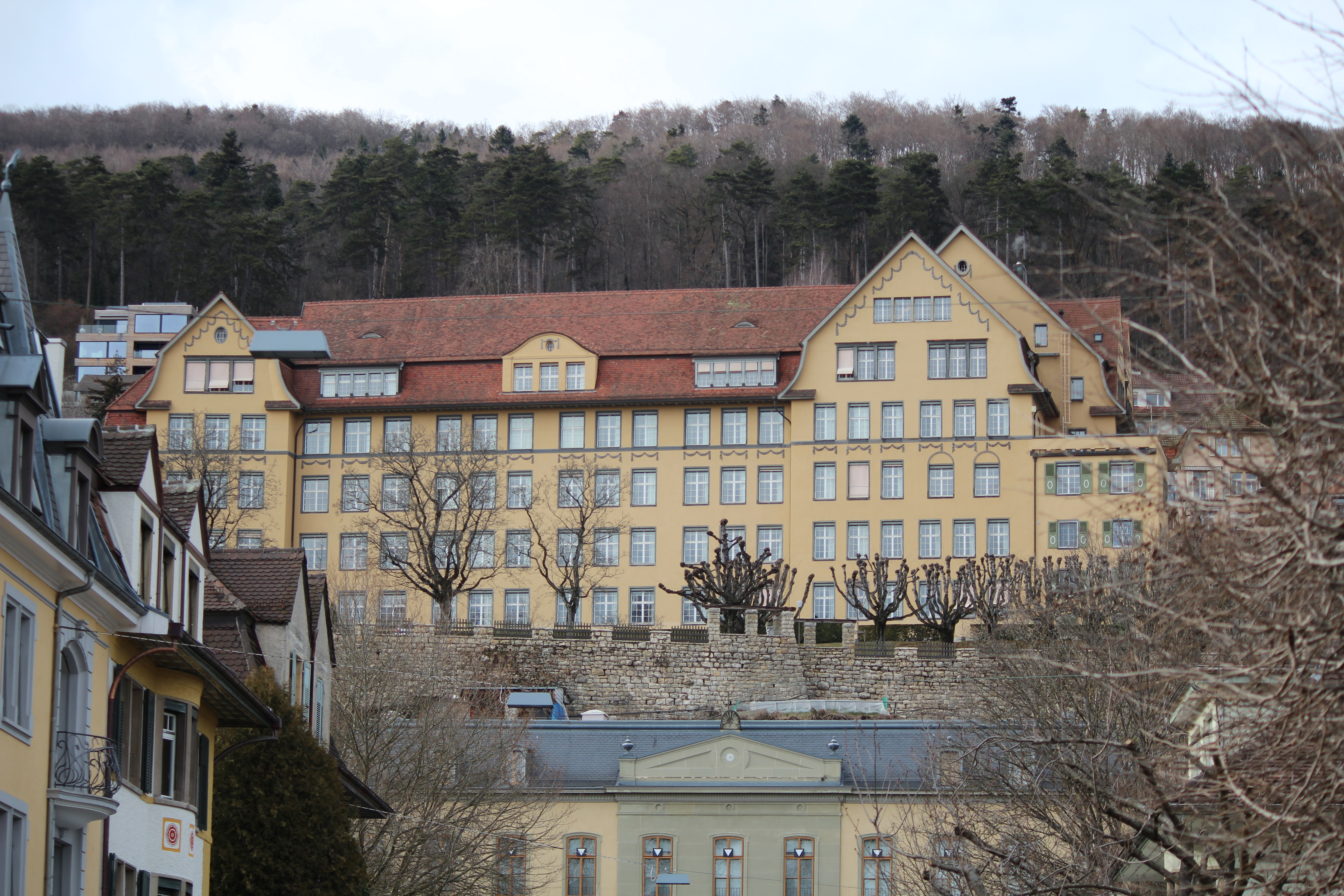 Gymnasium Alpenstrasse, Biel/Bienne